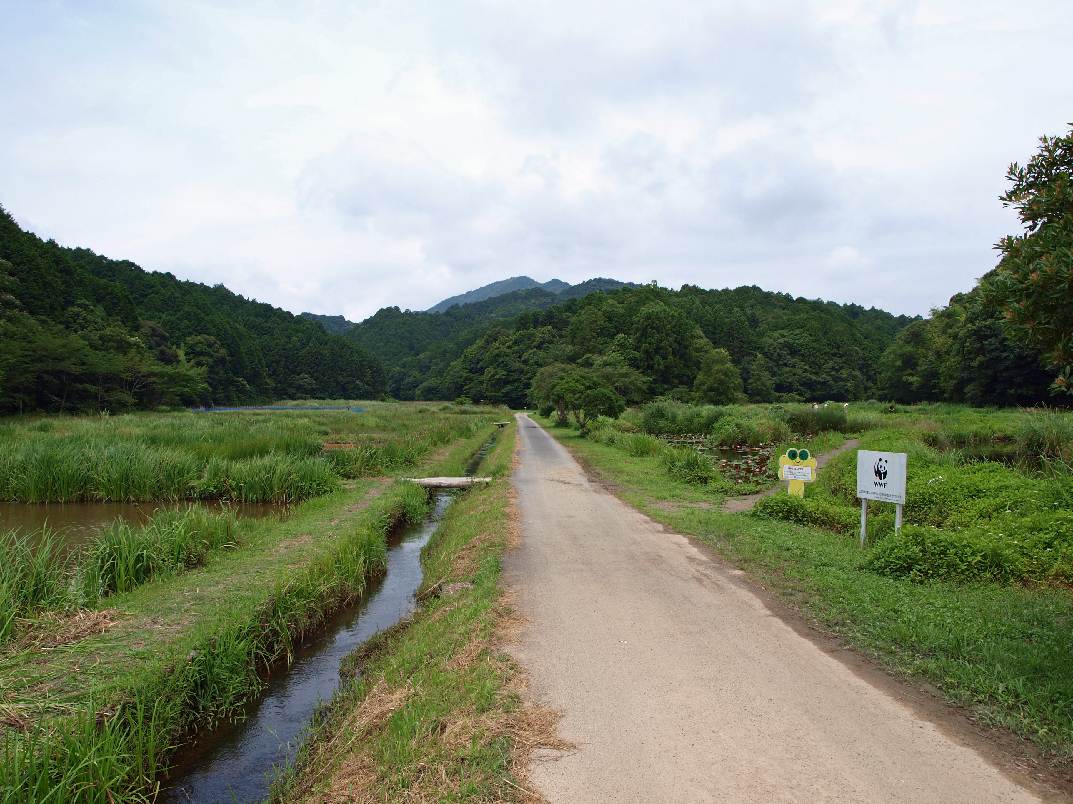 Tombo Shizen Koen, Shimanto City,Kochi Pref,Japan